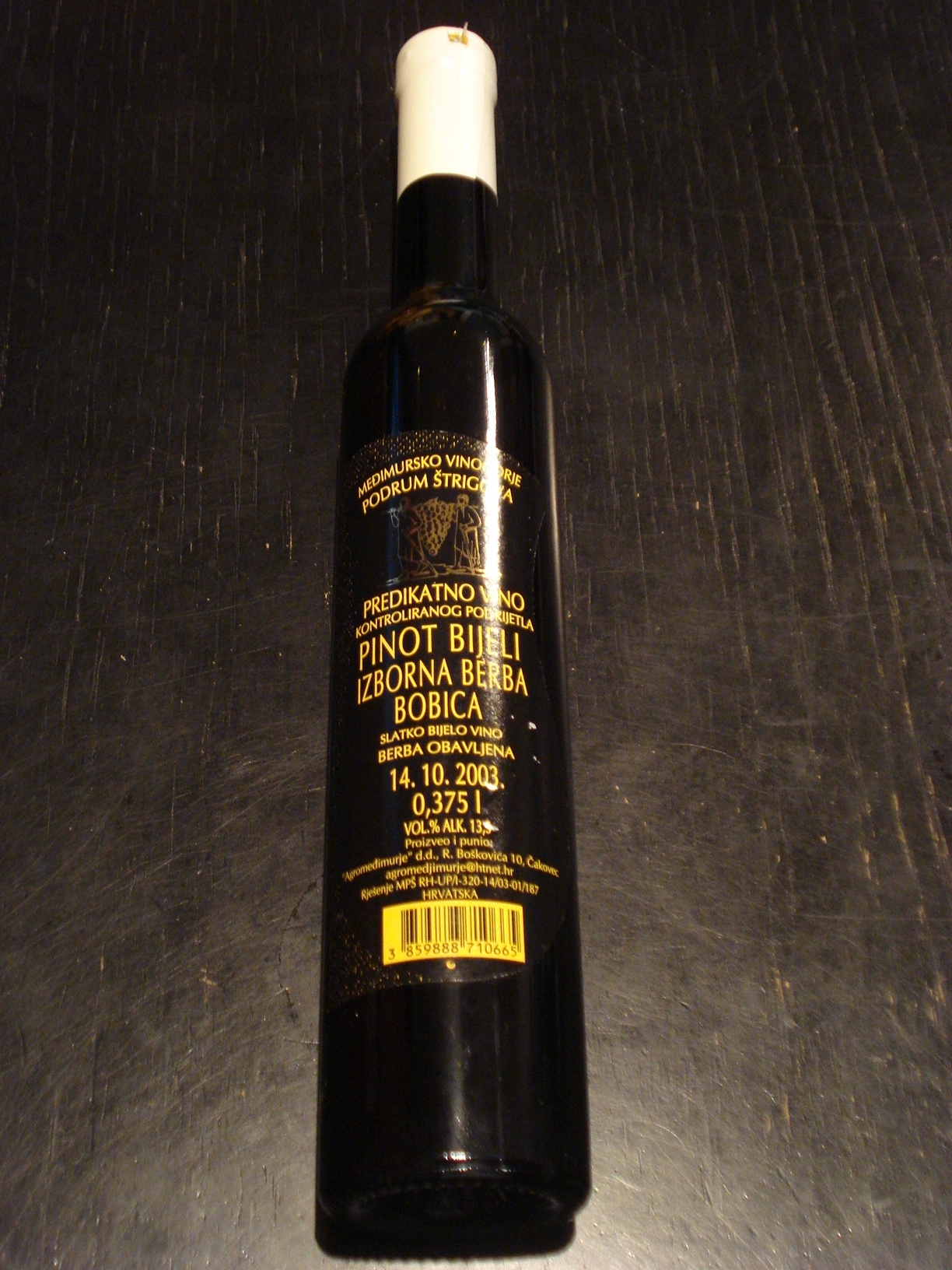 A bottle of White pinot wine, "Prädikat Auslese" (selected late harvest), from Medjimurje wine growing subregion, northern Croatia.